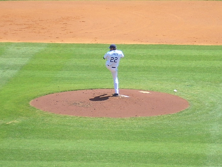 Description Pitcher Matt Garza of the Tampa Bay Rays during spring training DateMarch 2008SourceOwn workAuthorZeng8r (talk) 13:54, 7 April 2008 . . Zeng8r . . 723×543 (285 KB) Pitcher Matt Garza of the Tampa Bay Rays during spring training